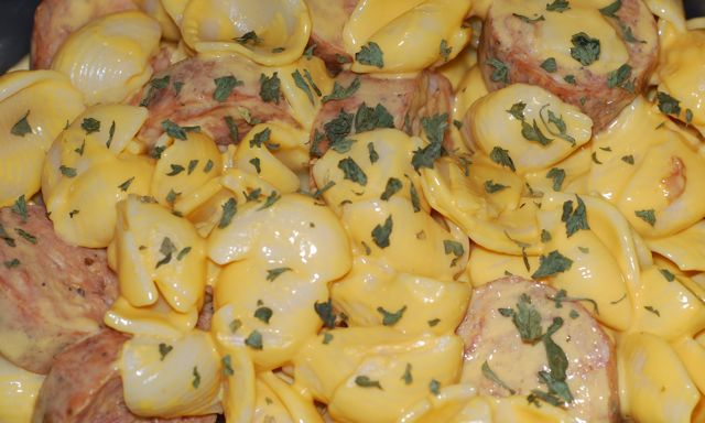 Kabosi, Macaroni, and Cheese